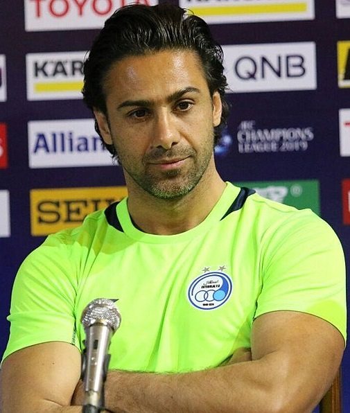 Farhad Majidi